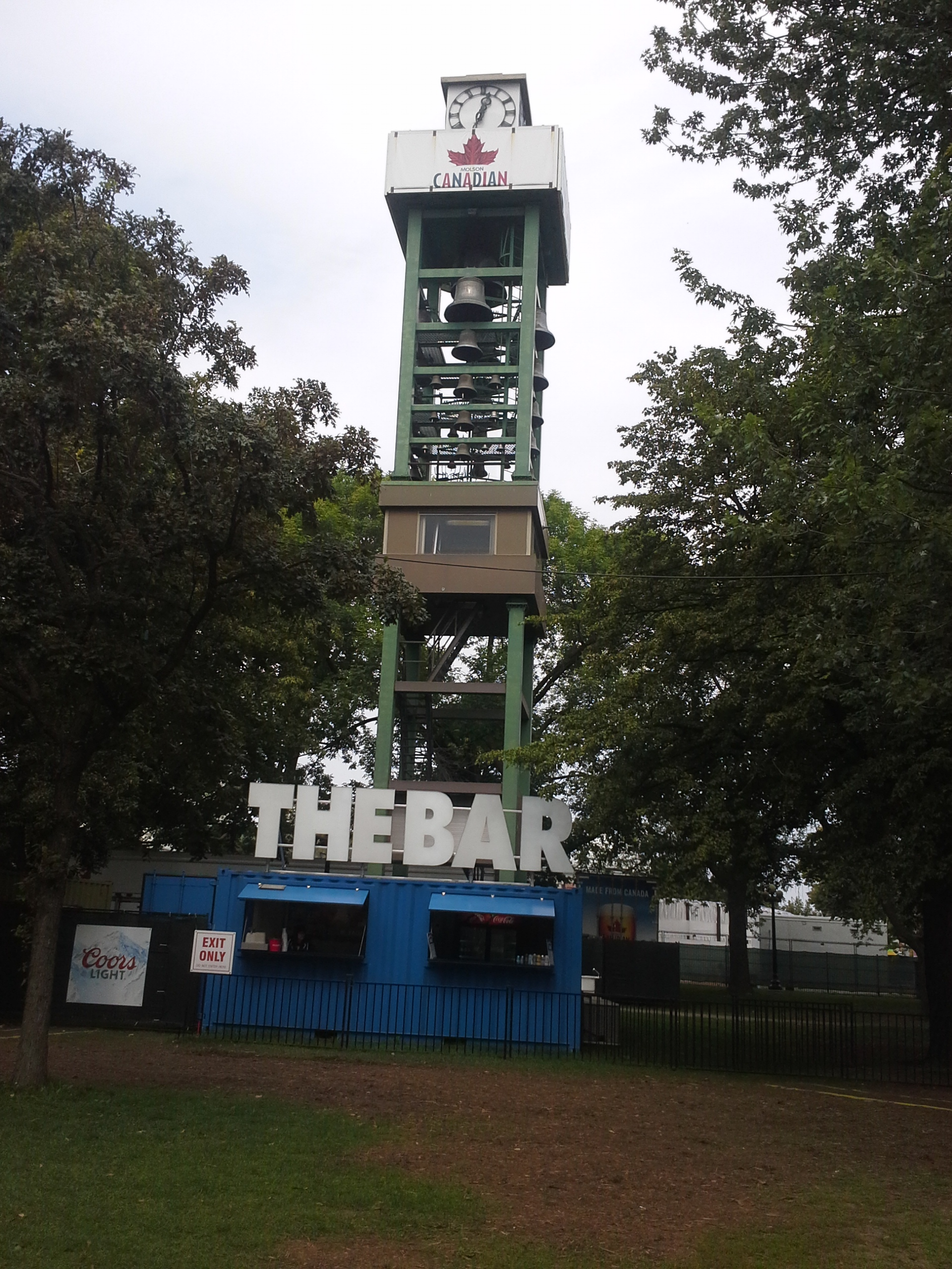 The Exhibition Place Carillon in 2015 - In 1974 the Carlsberg Company of Denmark provided funding for the construction of the 50 bell carillon. The bells were cast by the Royal Eijsbouts foundry of Asten, Holland. The largest bell weighs 4850 pounds and the instrument transposes up a perfect fourth from concert pitch. Four of the large bells are equipped with outside hammers to sound the Cambridge Quarters and hour strike. A unique feature of this carillon is that when the steel screen near the bottom of the tower is open, figures representing characters of the Hans Christian Anderson fairy tale, “The Swineherd” parade from one side to the other. When the carillon was built, it was played most days of the week during the Exhibition but is now rarely played.